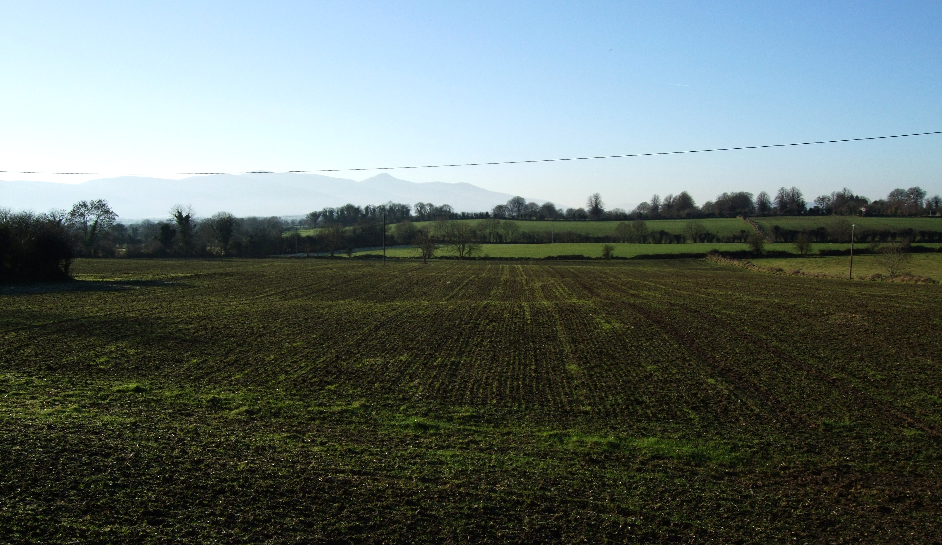 The townland of Garranlea in winter